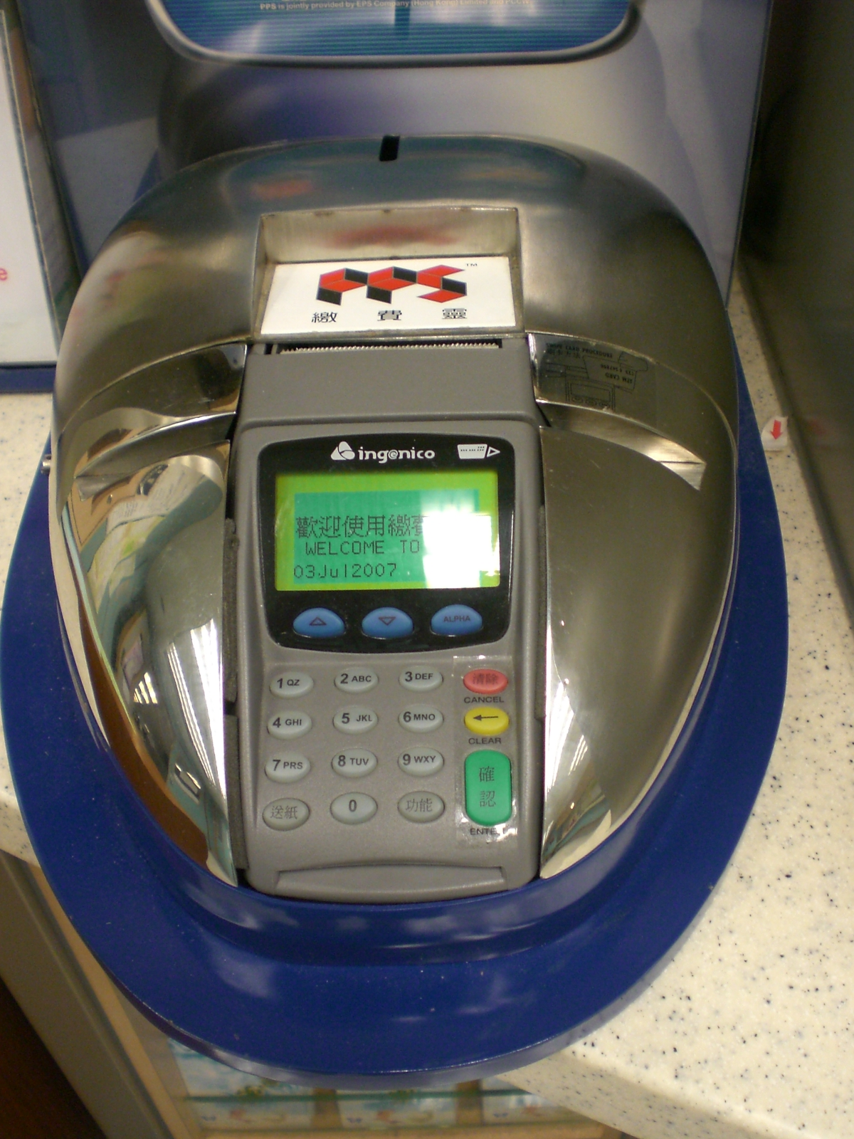 繳費靈, Payment by Phone Service System.